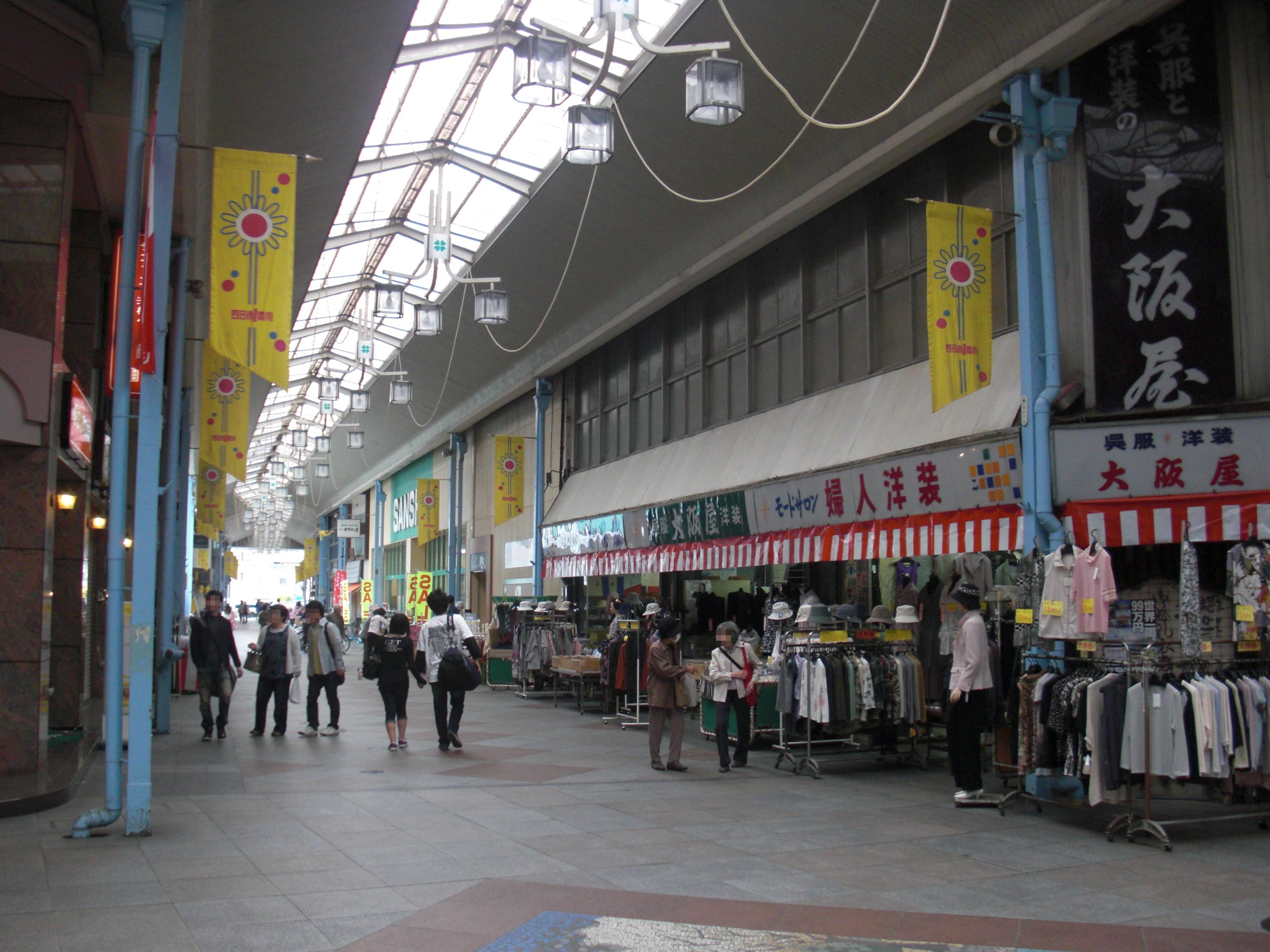 This is a landscape of Suwasakaemachi, Yokkaichi, Mie, Japan.